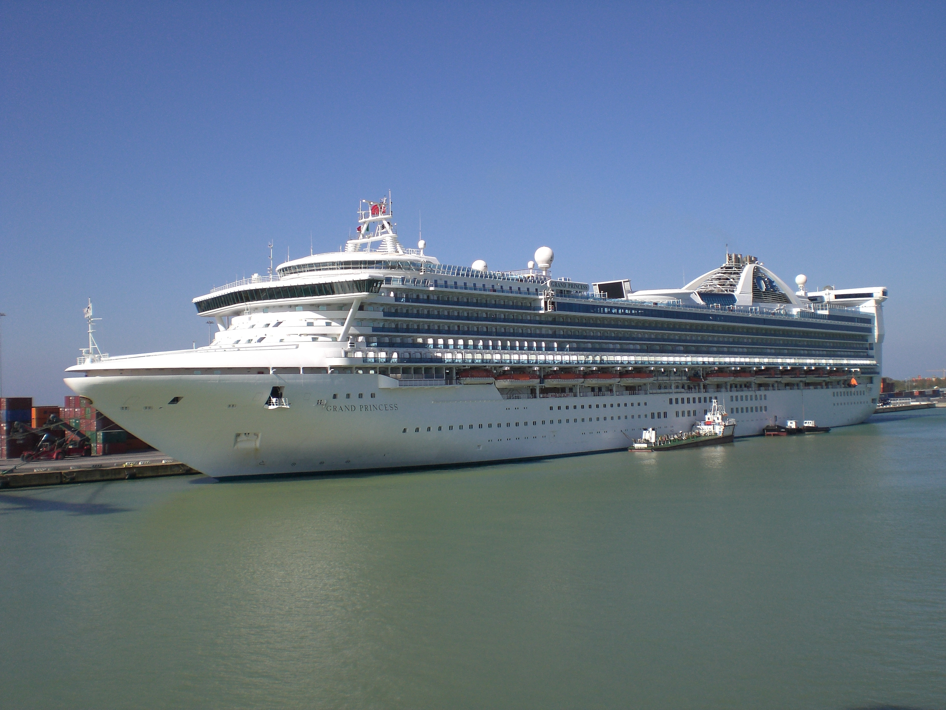 Cruiseship "Grand Princess" in Leghorn, Italy